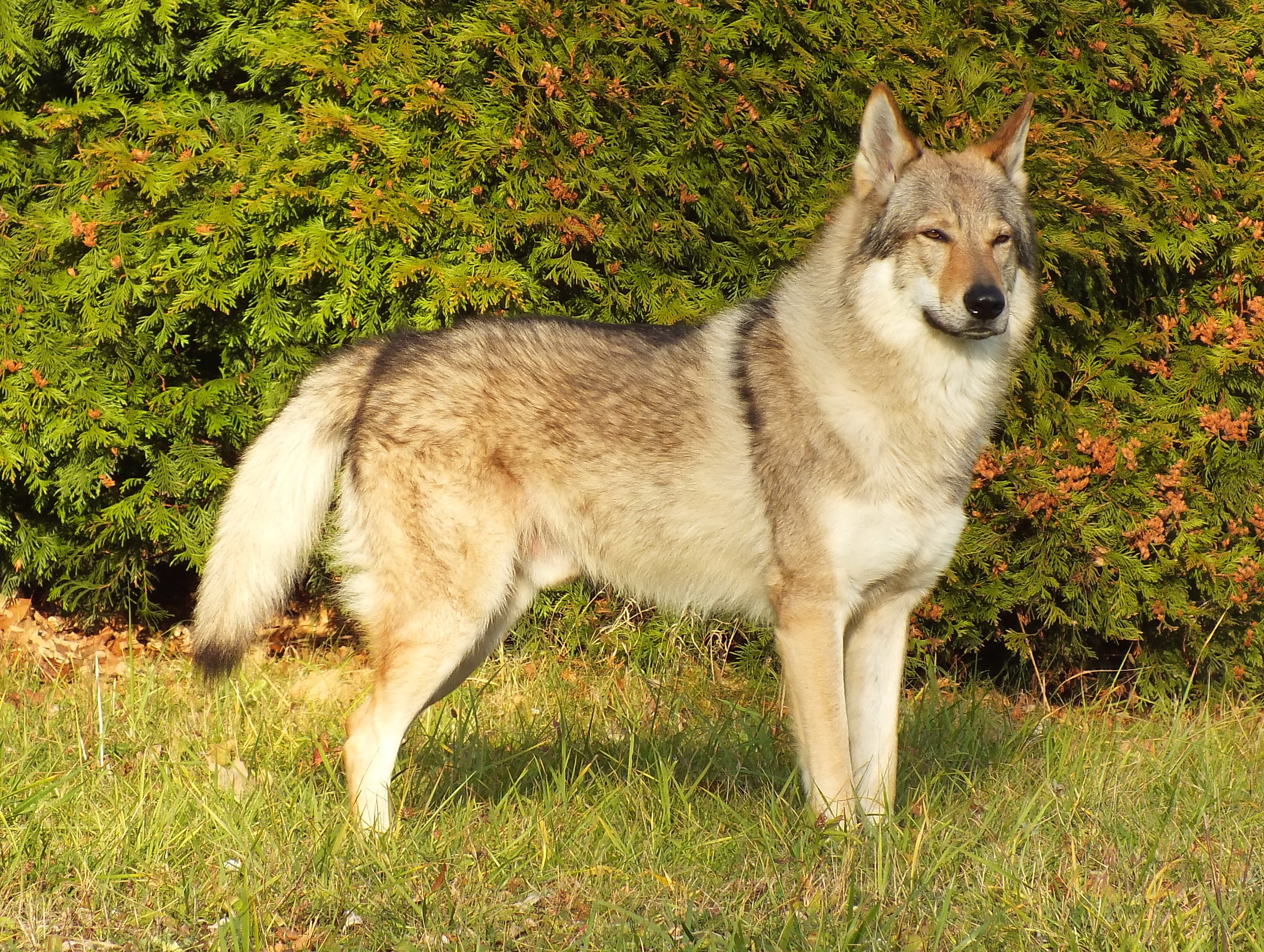 Czambor z Vlčího dubu československý vlčák